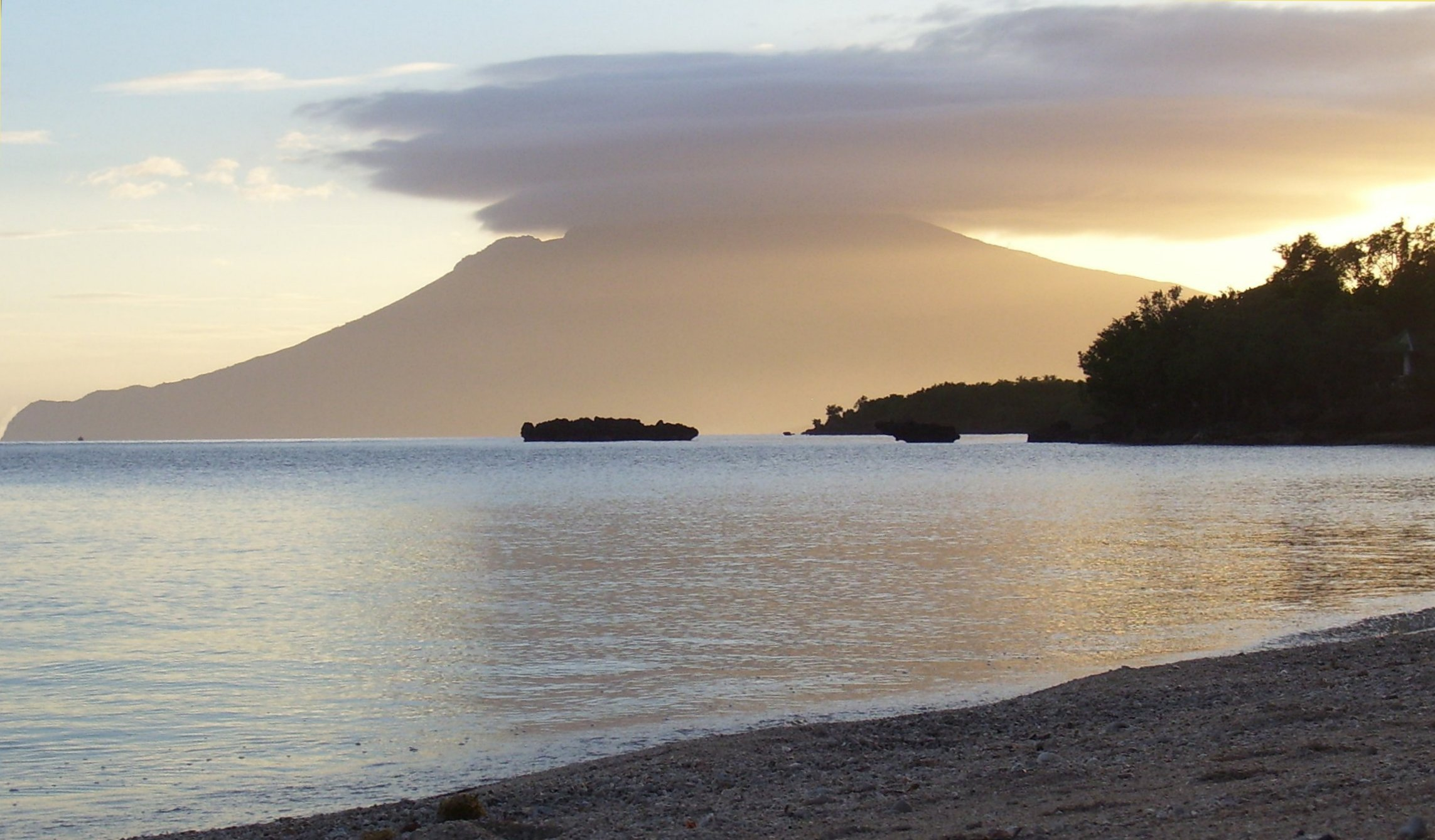 Mount Malindig, a dormant stratovulcano on Marinduque Island, The Philippines